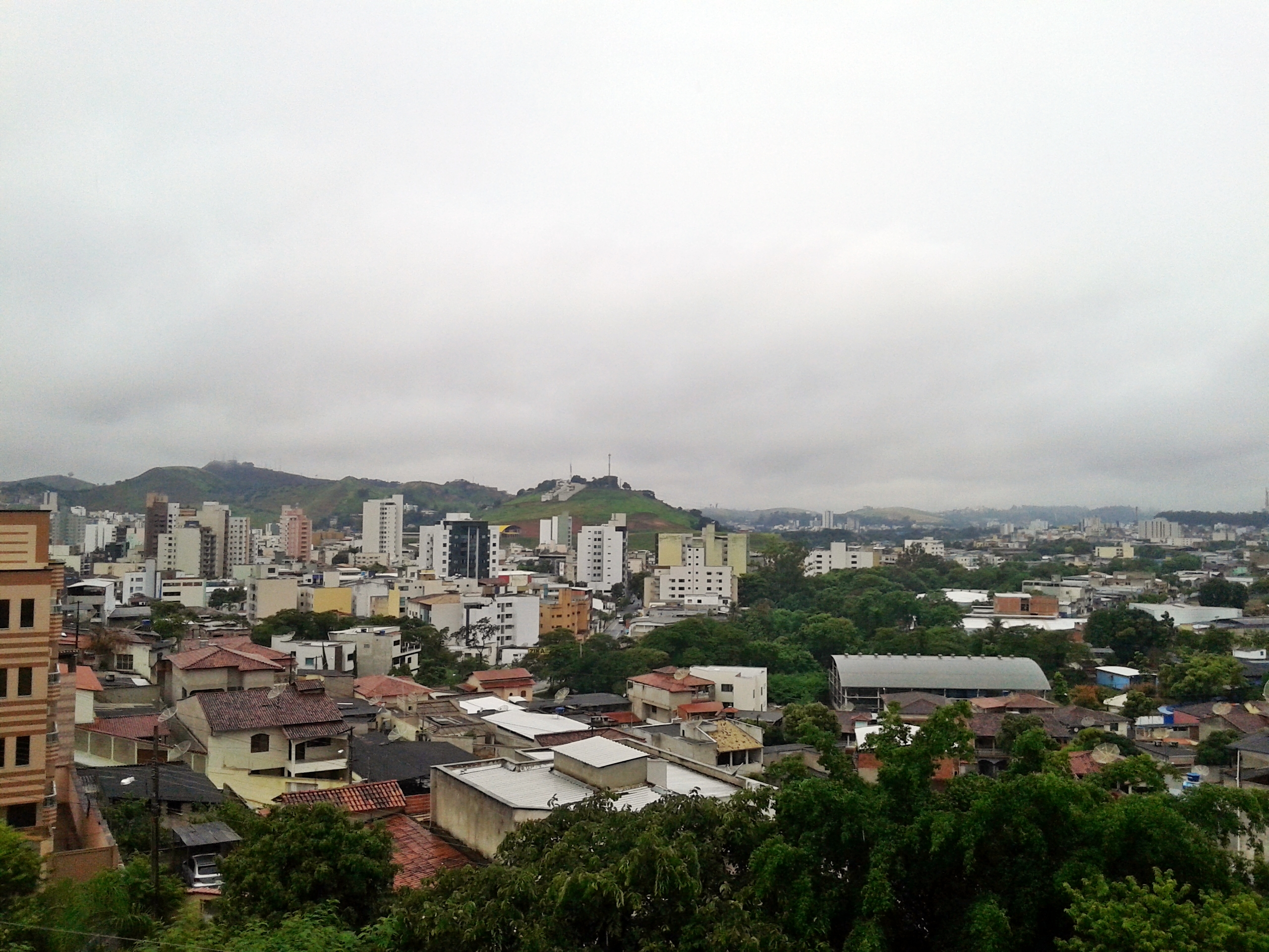 Partial view of the Ideal, Cidade Nobre and Iguaçu neighborhoods, in Ipatinga, Minas Gerais, Brazil.